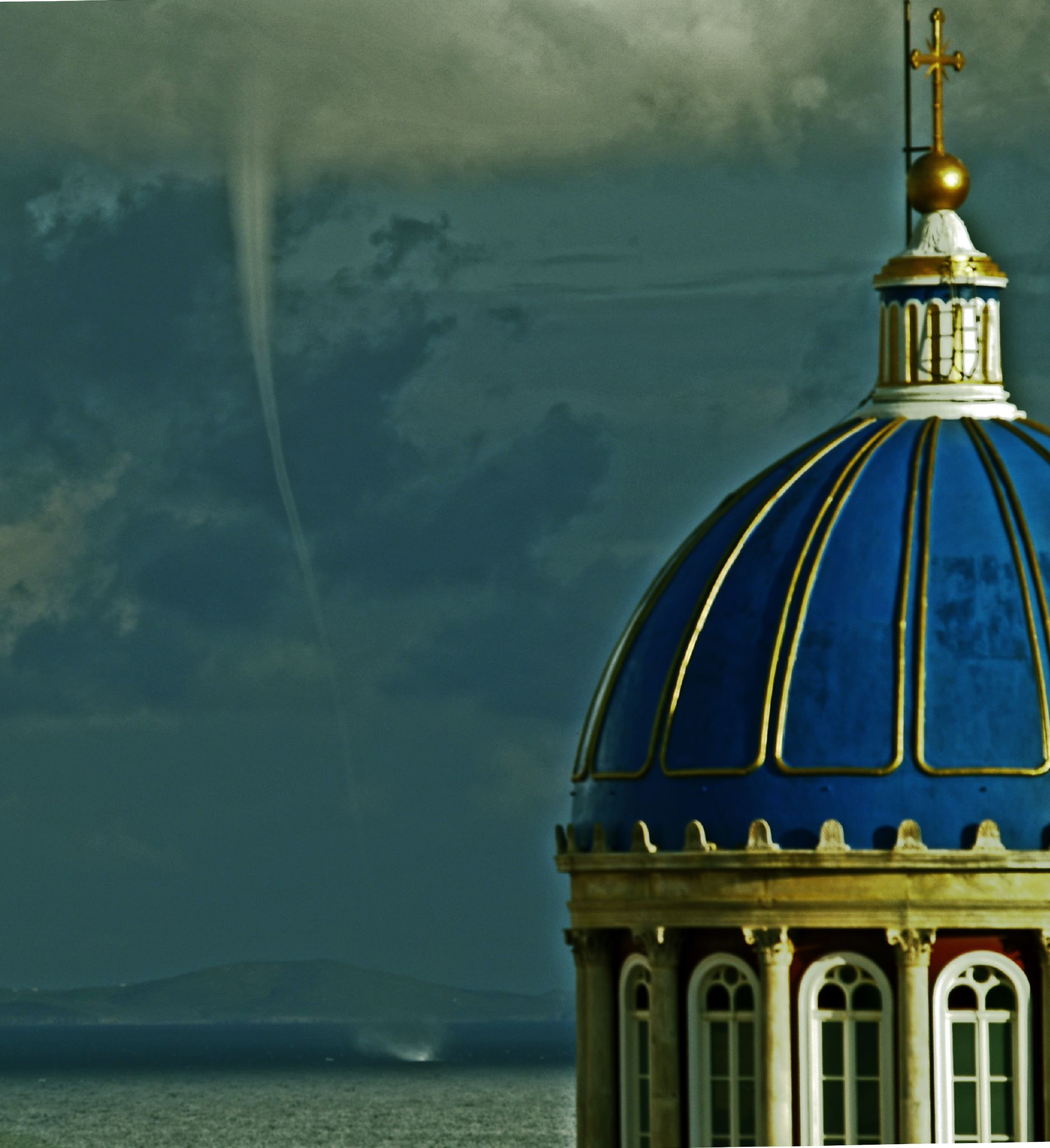 Waterspout at sea between Syros and Mykonos